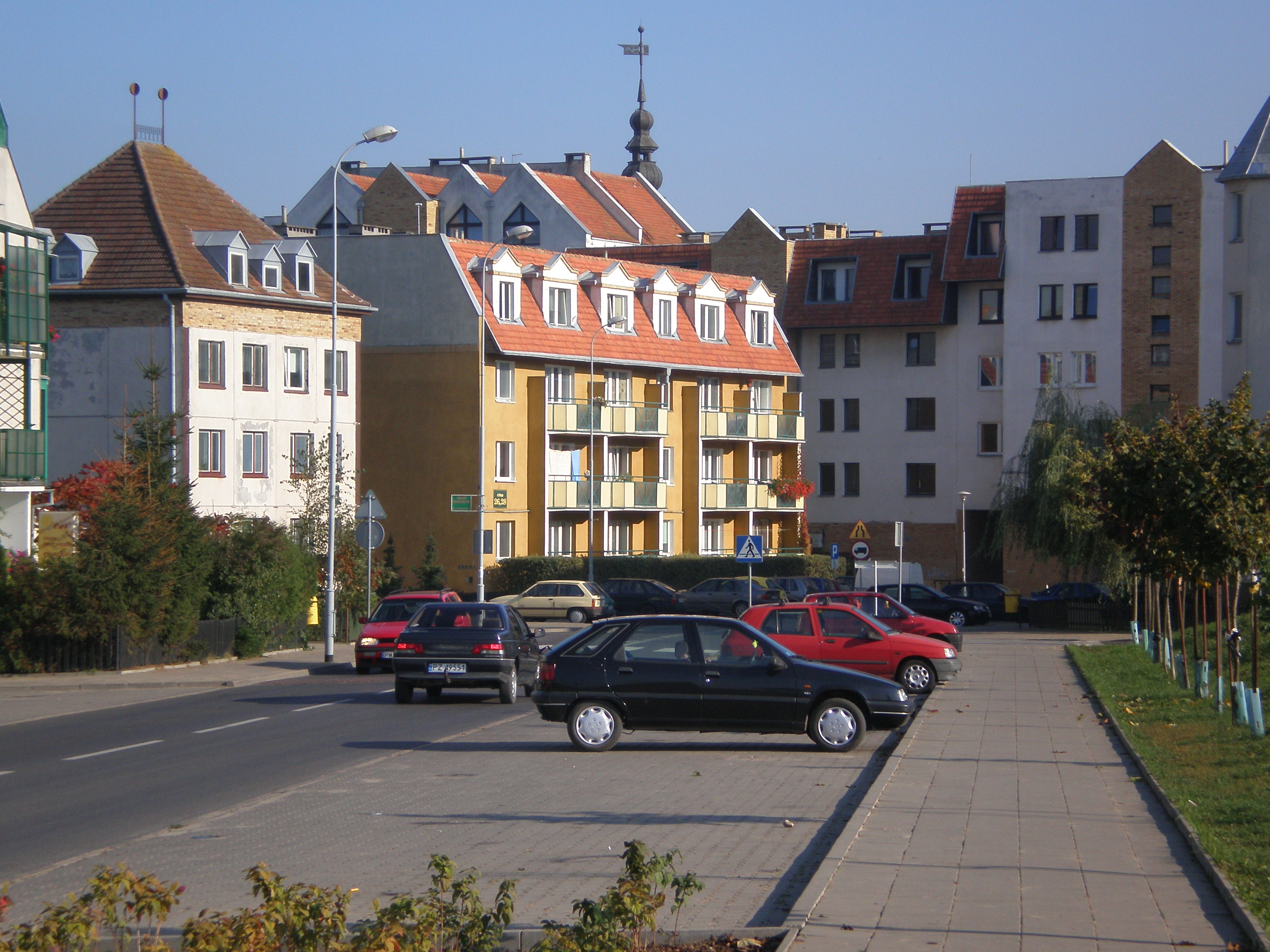 The Murowana Goślina city.